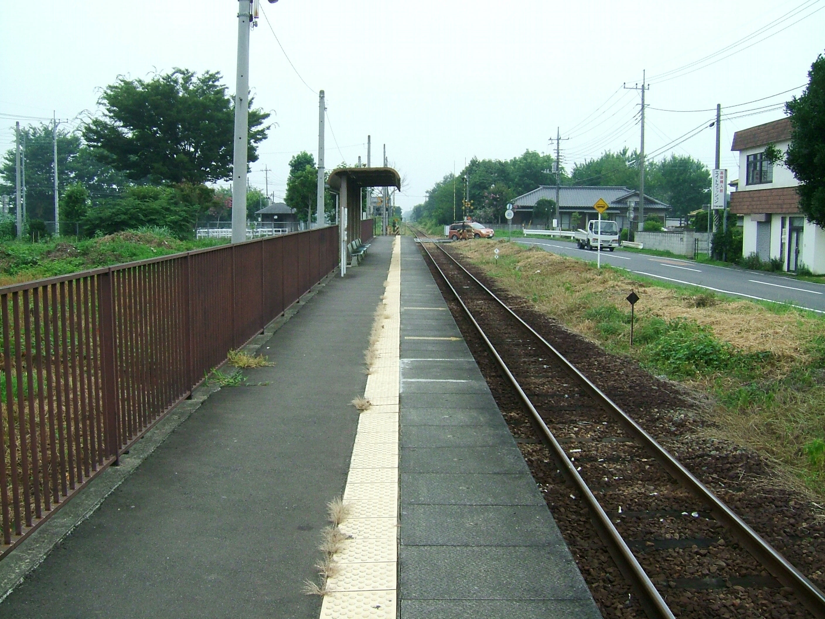 The platform of Higuchi Station(Moka Railway Moka Line)